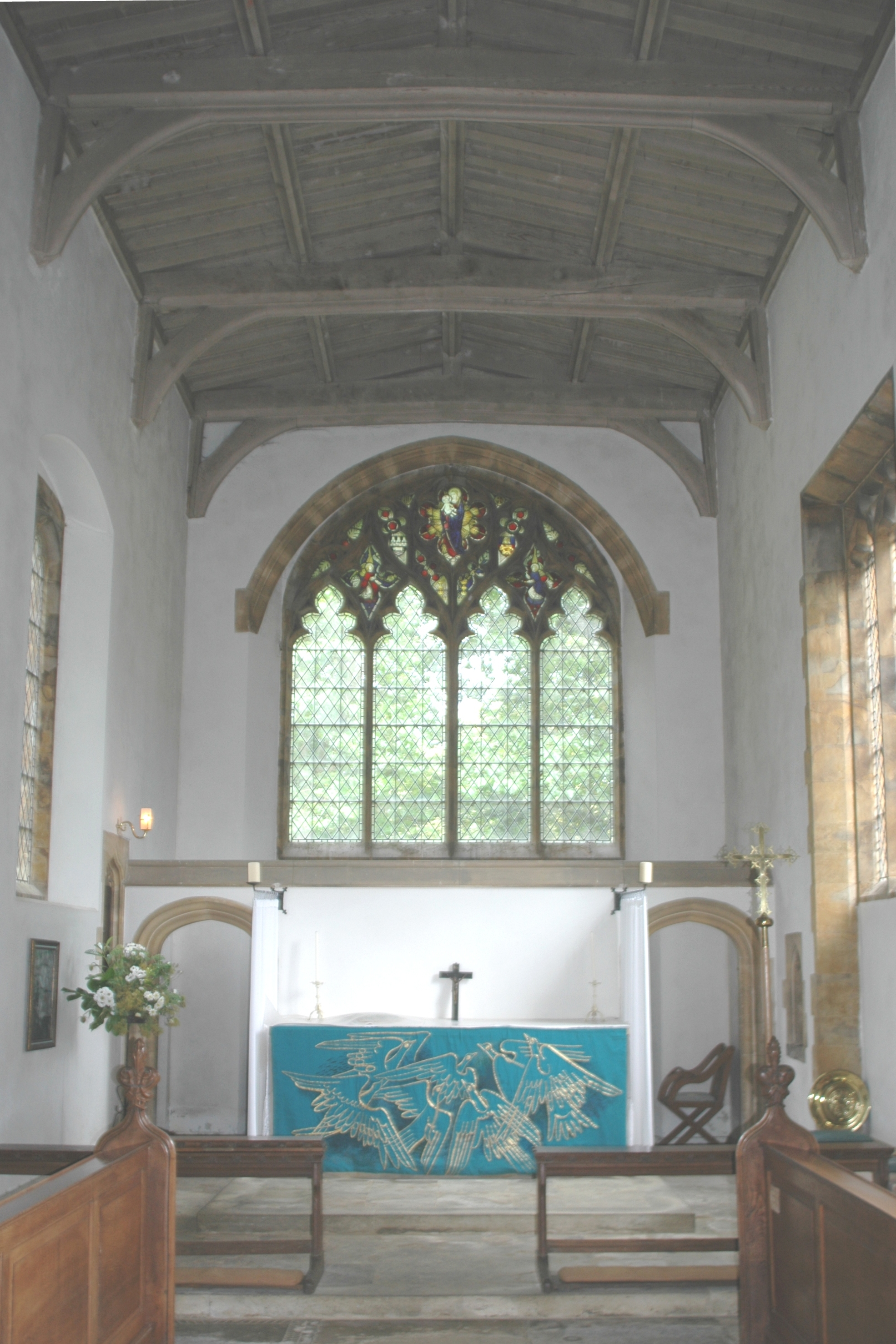 Church of England parish church of St Mary the Virgin, Souldern in Oxfordshire: interior of the chancel designed by Sir Ninian Comper and built in 1897.